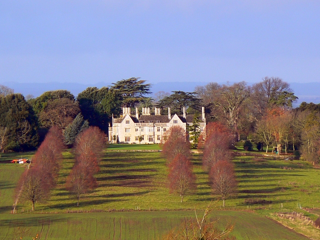 Hannington Hall, Hannington, Swindon (1) The property is listed Grade II* by English Heritage. It dates from 1653. This and the other images of the house obtained this day were taken from Highworth cemetery 1.7 kilometres to the south-east.